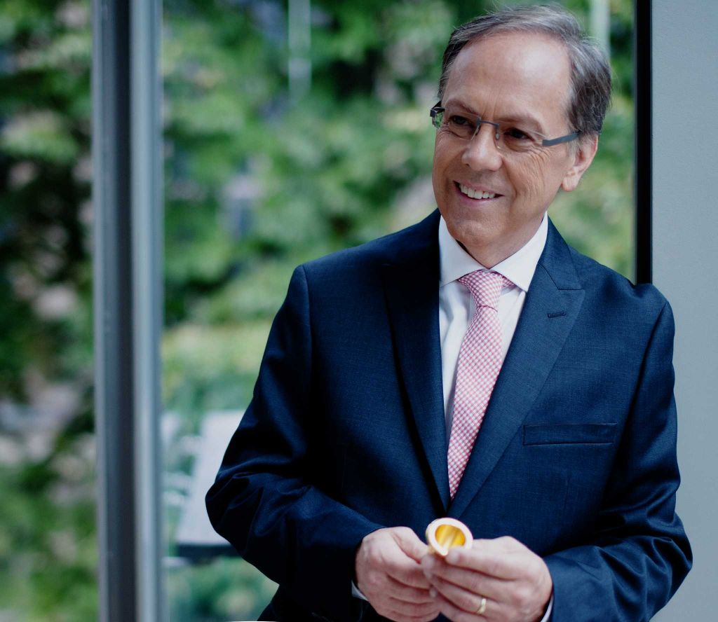 Chuck Daellenbach in 2014